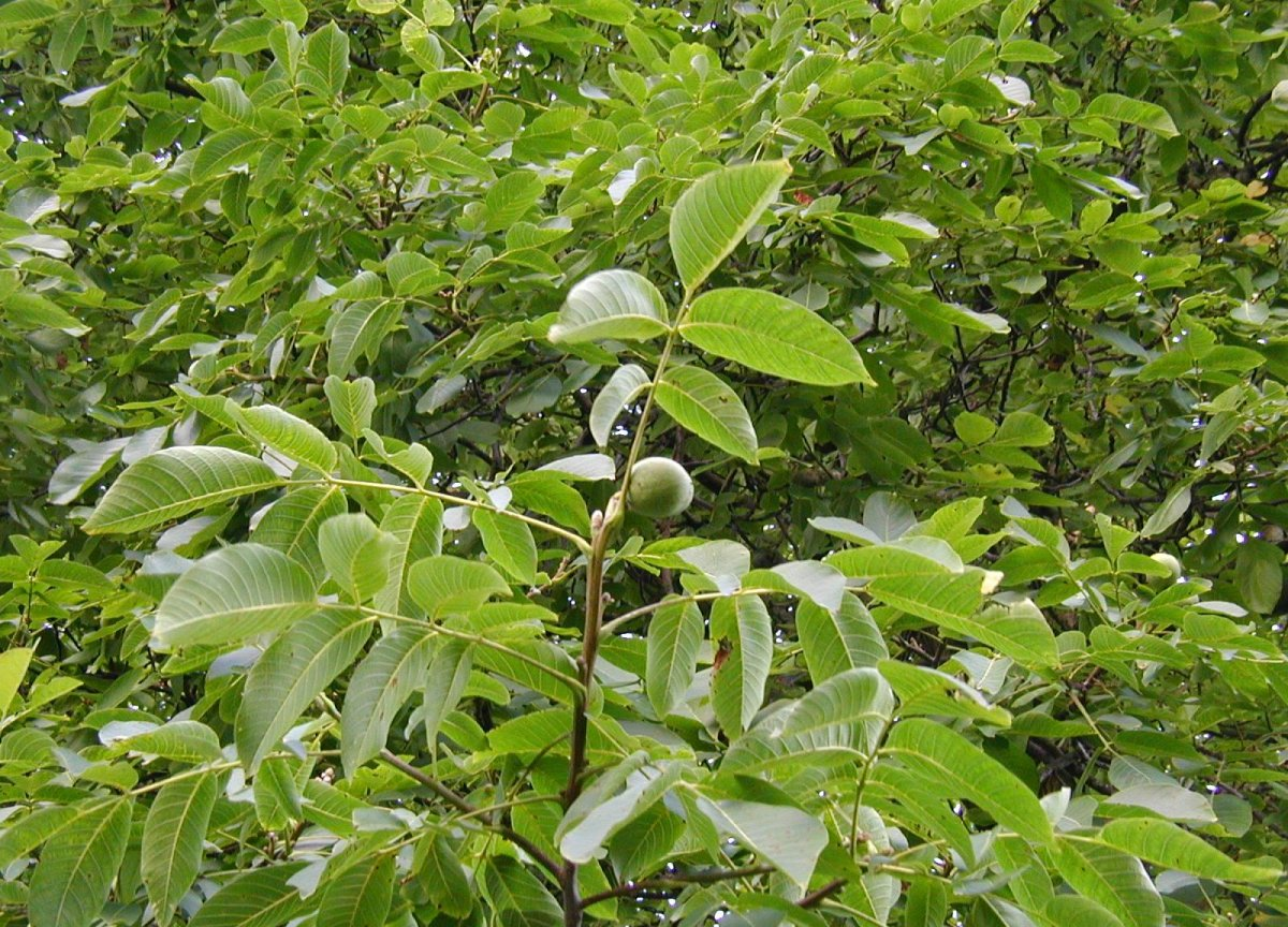 Juglans regia: Leaves and an unripened fruit. Juglans regia